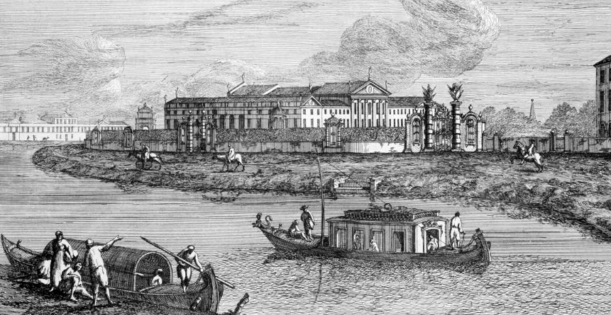 G. Costa - Villa Pisani - 1750